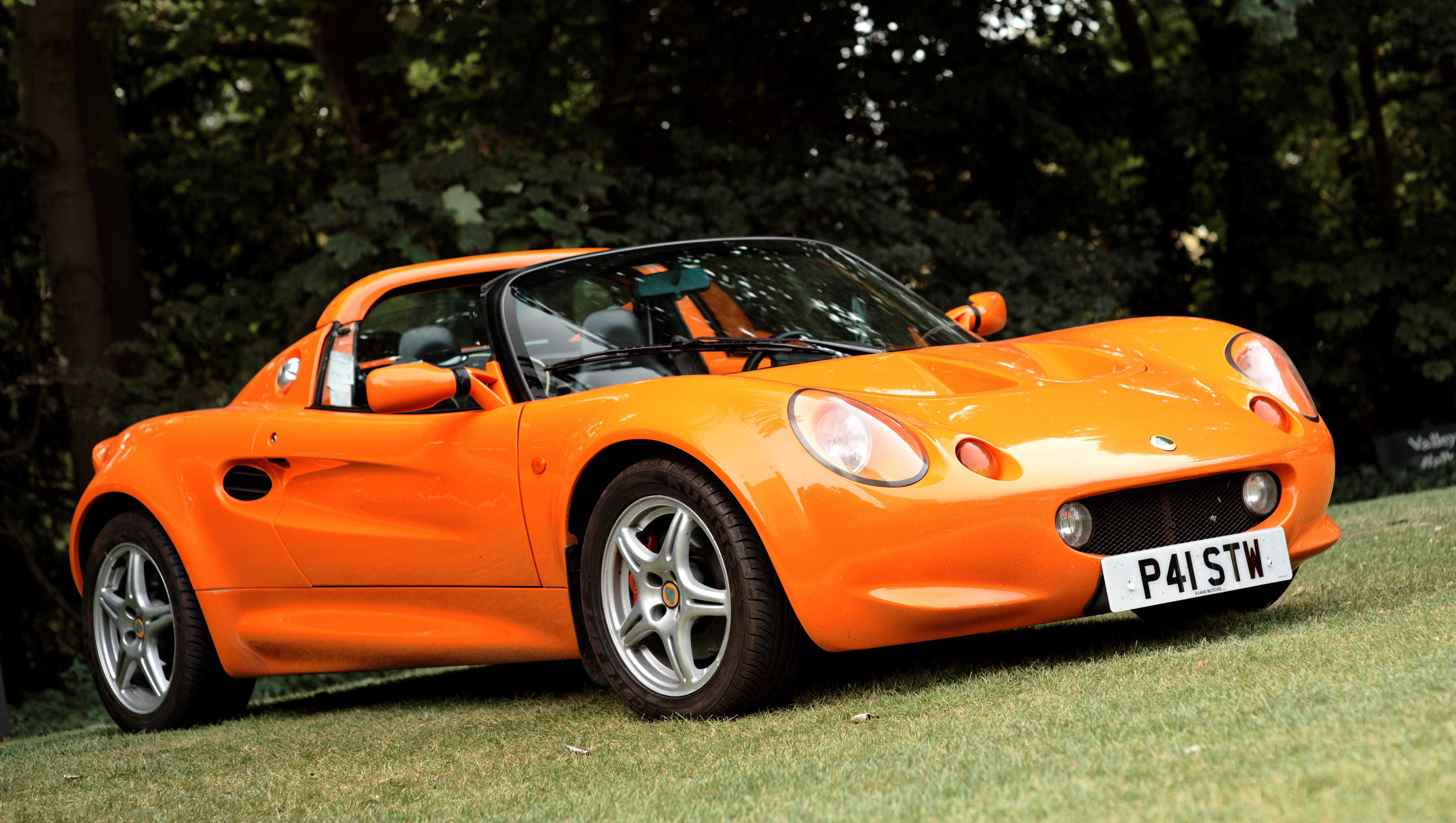 Lotus Elise Series 1